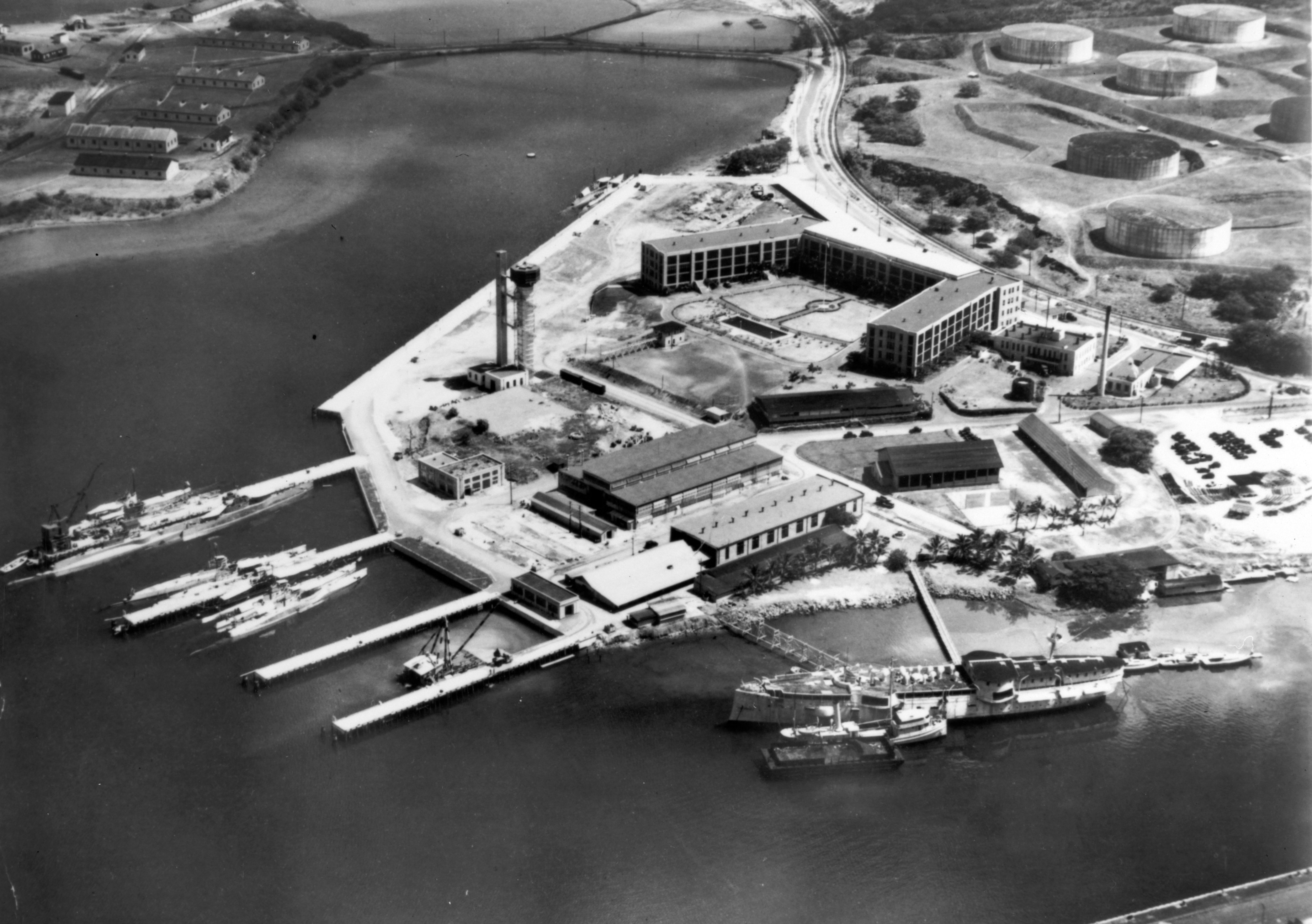 View of the U.S. Navy submarine base at Pearl Harbor in the early 1930s. Note the barracks ship USS Alton (IX-5) in the foreground. Alton was the former protected cruiser USS Chicago (CA-14). It was sold for scrapping in 1936 but foundered on the way to the U.S. West Coast.